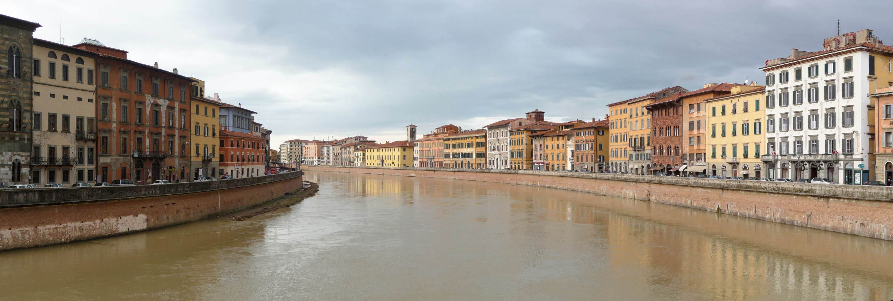 View of the Arno River from Ponte di Mezzo. Pisa, Italy.